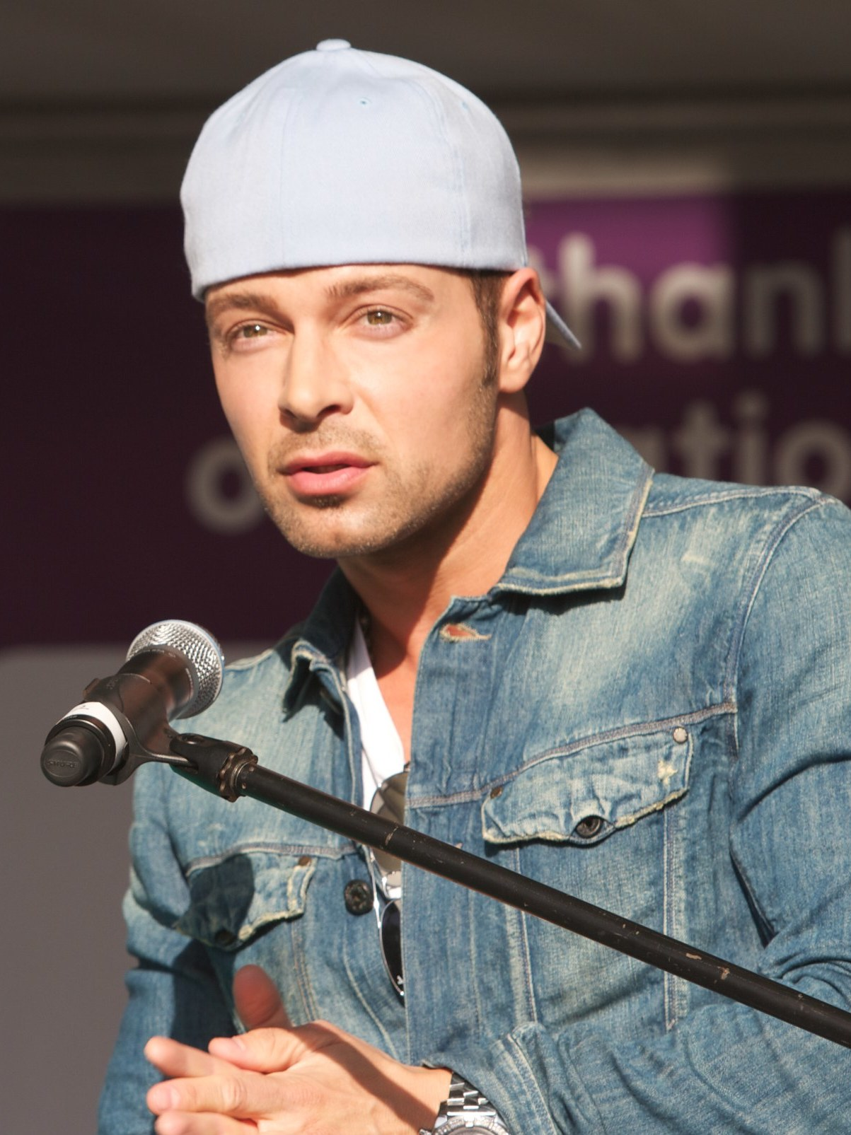 March of Dimes 414